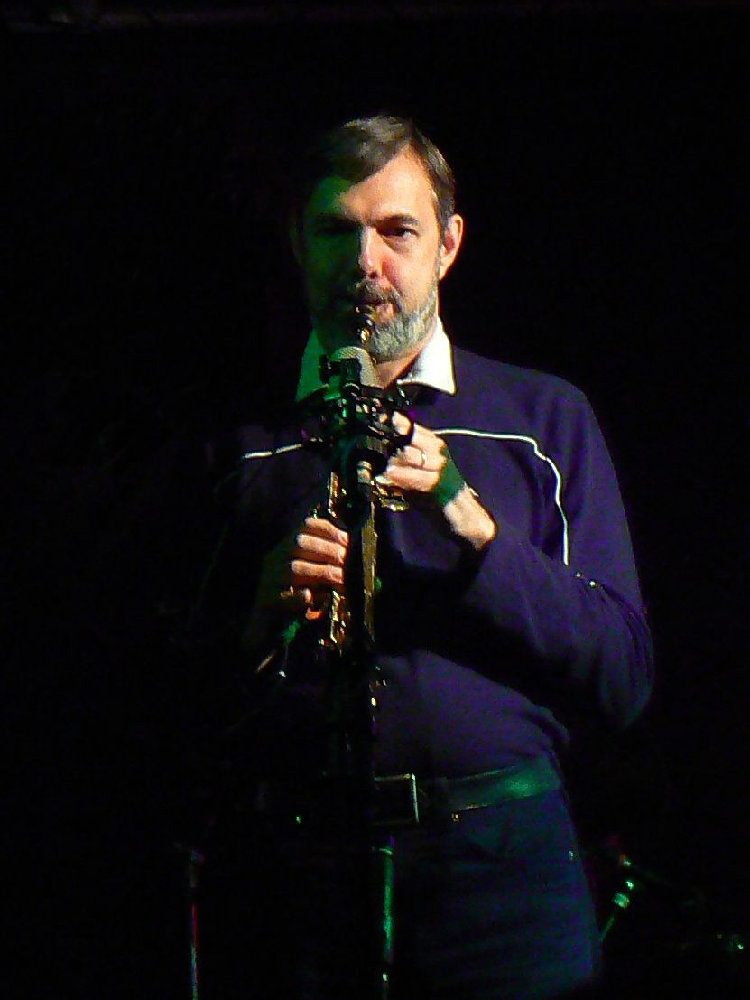 David Eben, Czech musician Česky: David Eben